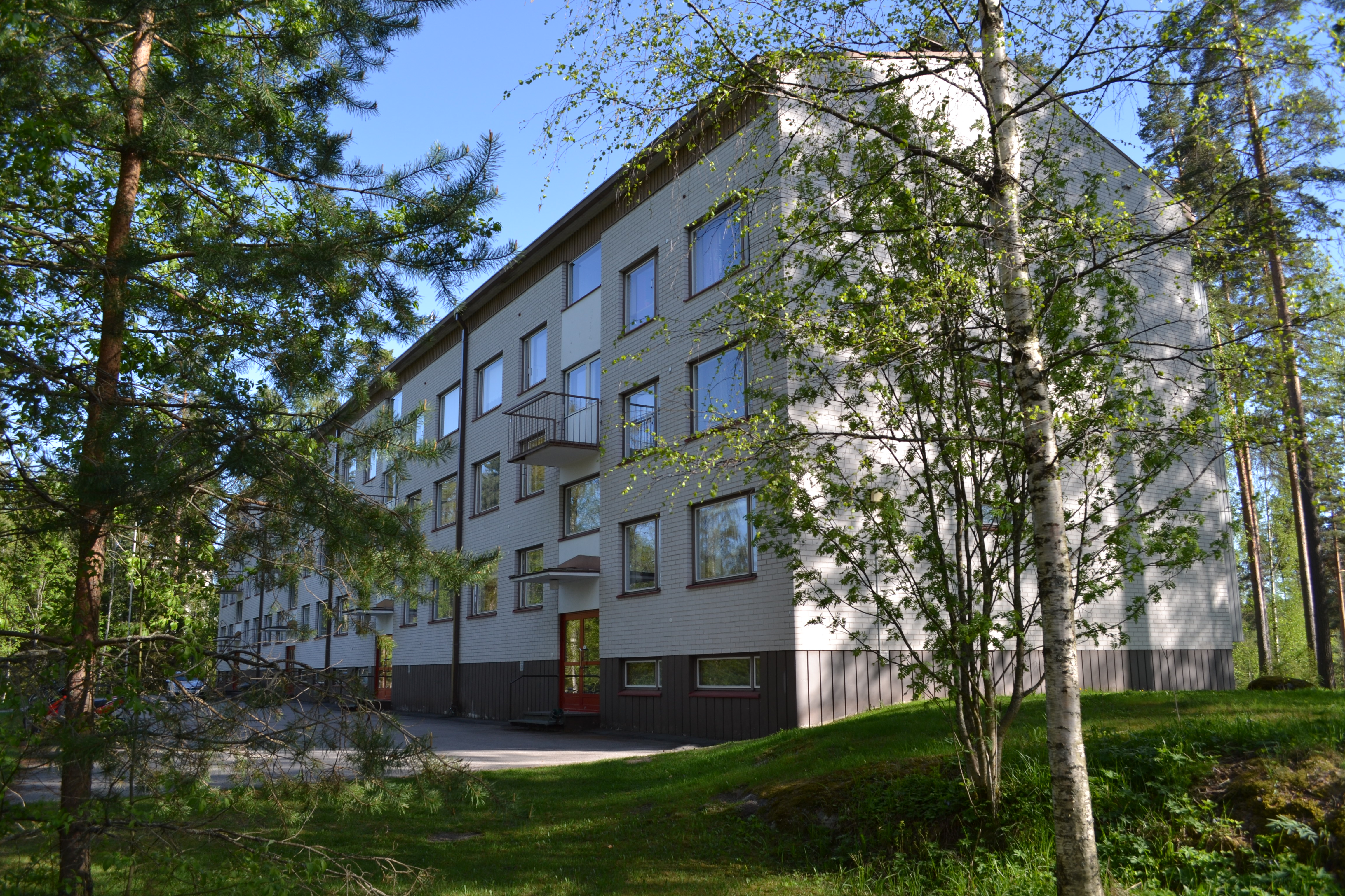 A house in the street Vekarokatu in the district of Köhniö in Jyväskylä